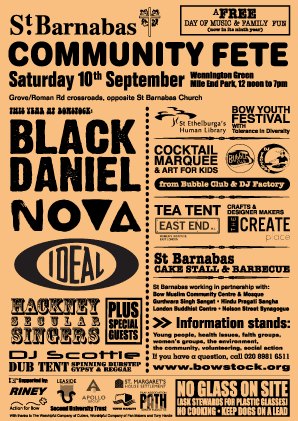 St Barnabas Community Fete (Bowstock) 2011 poster, listing the headline bands, including Black Daniel, Nova, Ideal and the Hackney Secular Singers